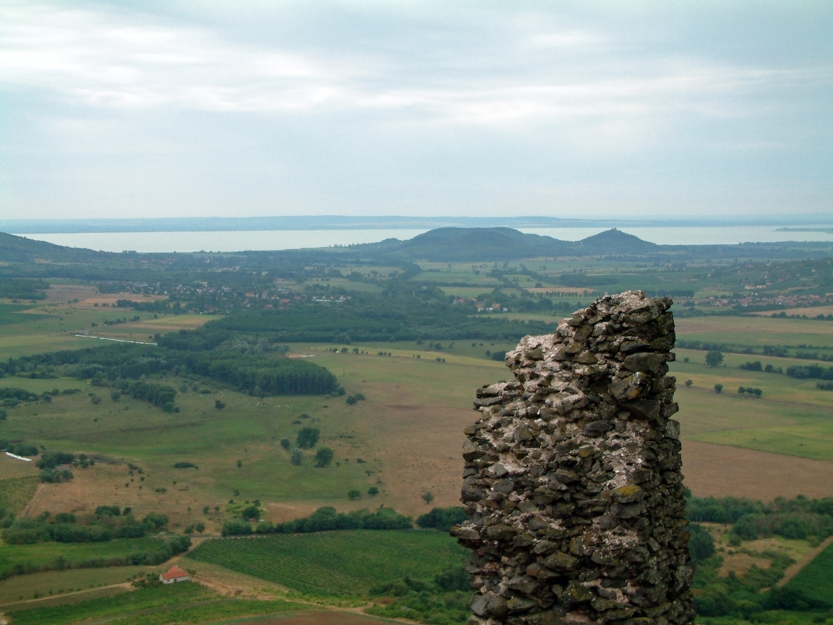 Panoramic view from the top of the hill Csobánc, Hungary, with Lake Balaton in the background. Part of the castle ruins can be seen in the foreground.